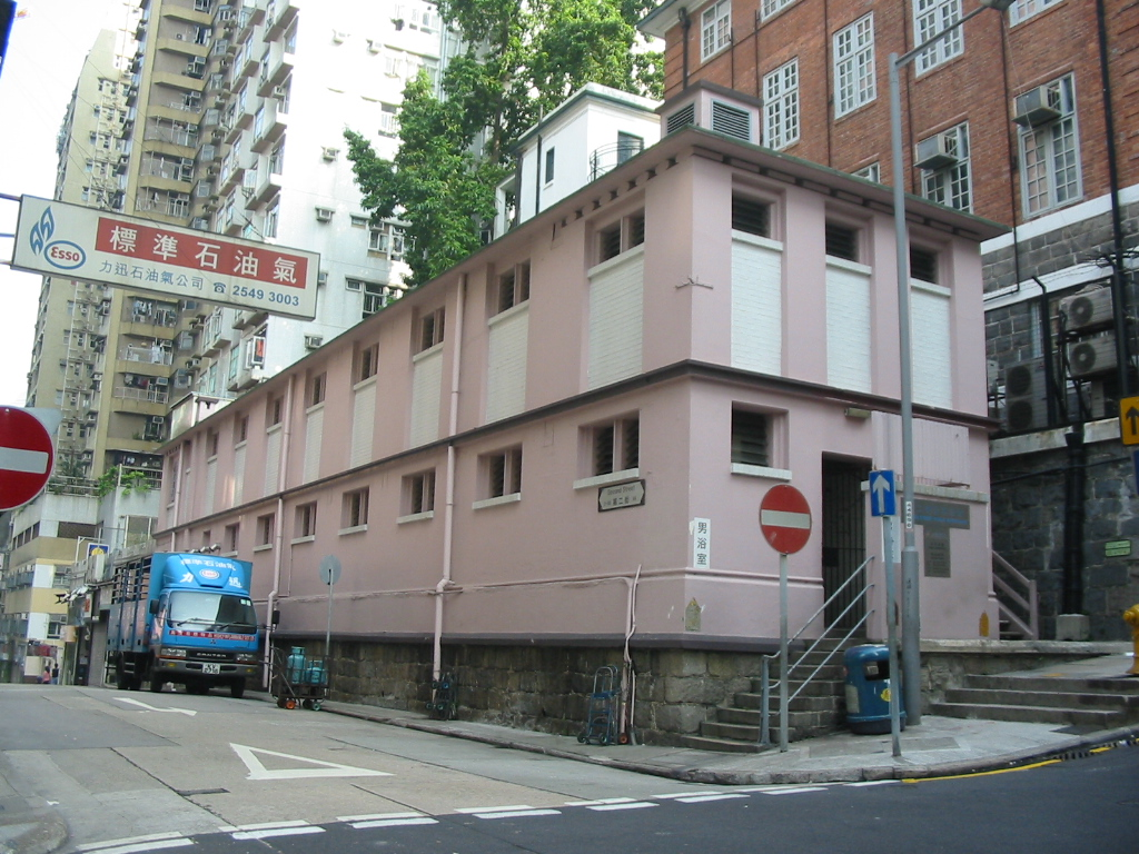 Second Street Public Bathhouse